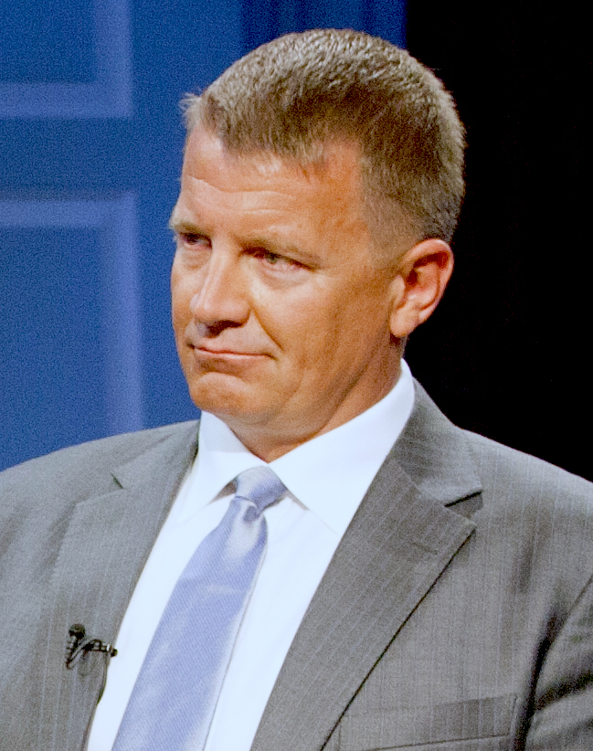 Erik Prince speaking at a Miller Center gathering on April 15, 2015.